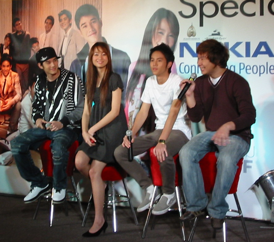 Press conf. of concert "Nokia Music Presents The Love of Siam Special Greeting" (From left to right - Mario Maurer,Kanya Rattanapetch, Witwisit Hiranyawongkul and Chukiat Sakweerakul